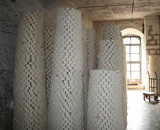 Stacks of Nabulsi soap from inside the Touqan factory in Nablus, Palestine. Mistakenly attributed to "Camel" factory, by me, the original uploader.